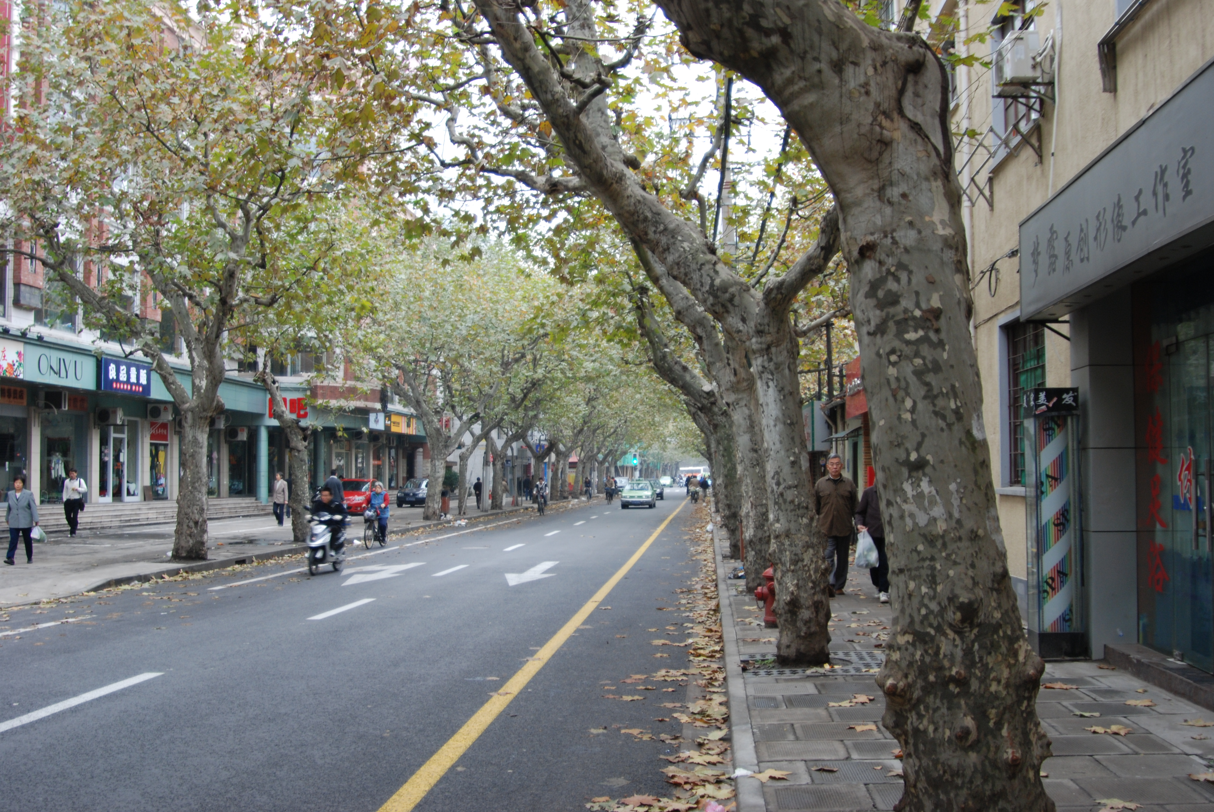 Guangyuan Road